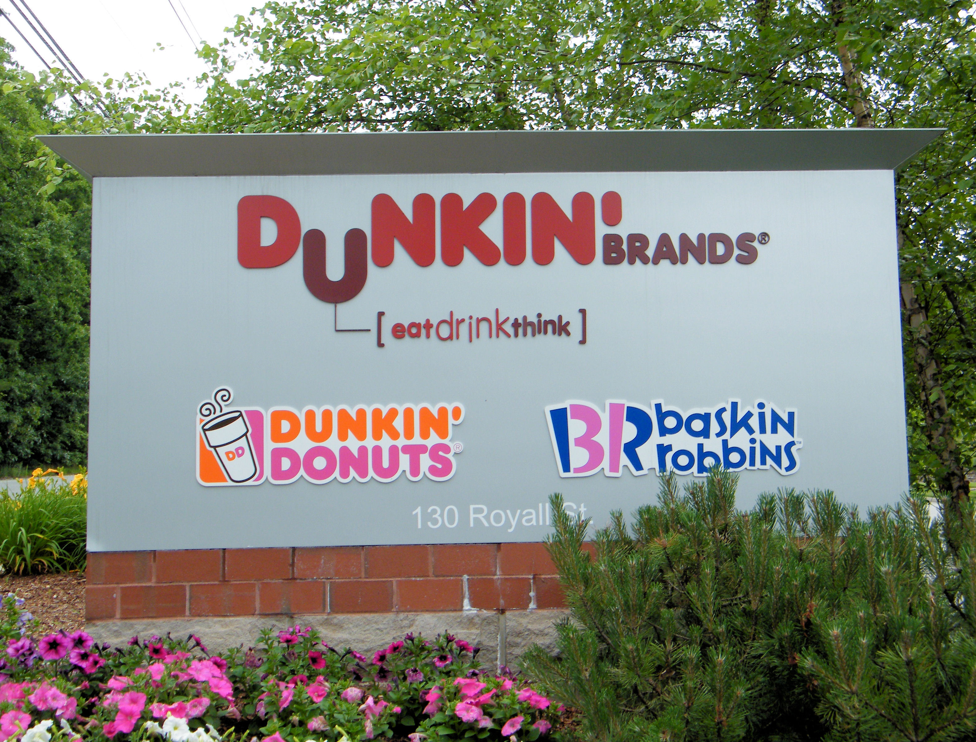 Welcome sign at Dunkin' Brands headquarters in Canton.